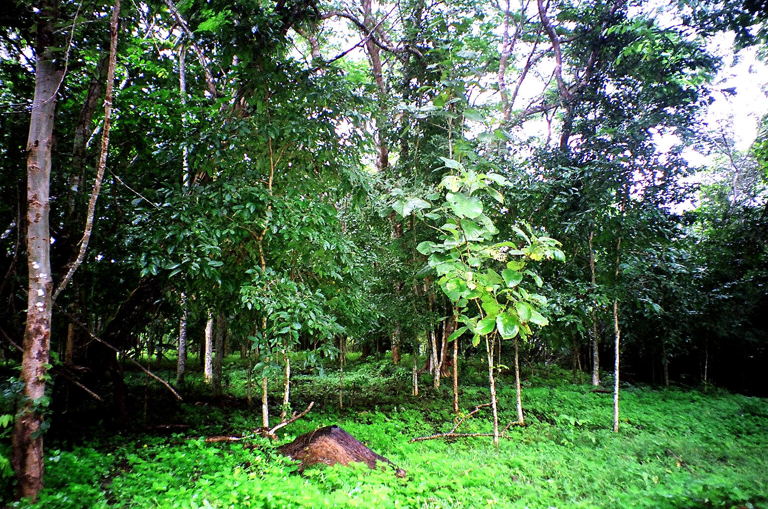 Forest in Sai Yok National Park, Kanchanaburi, Thailand